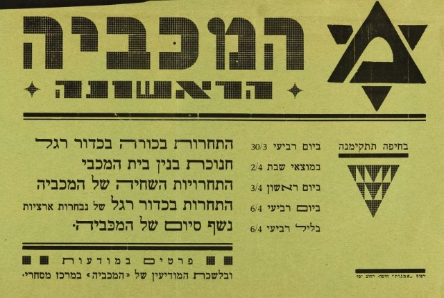 The First Maccabiah Poster